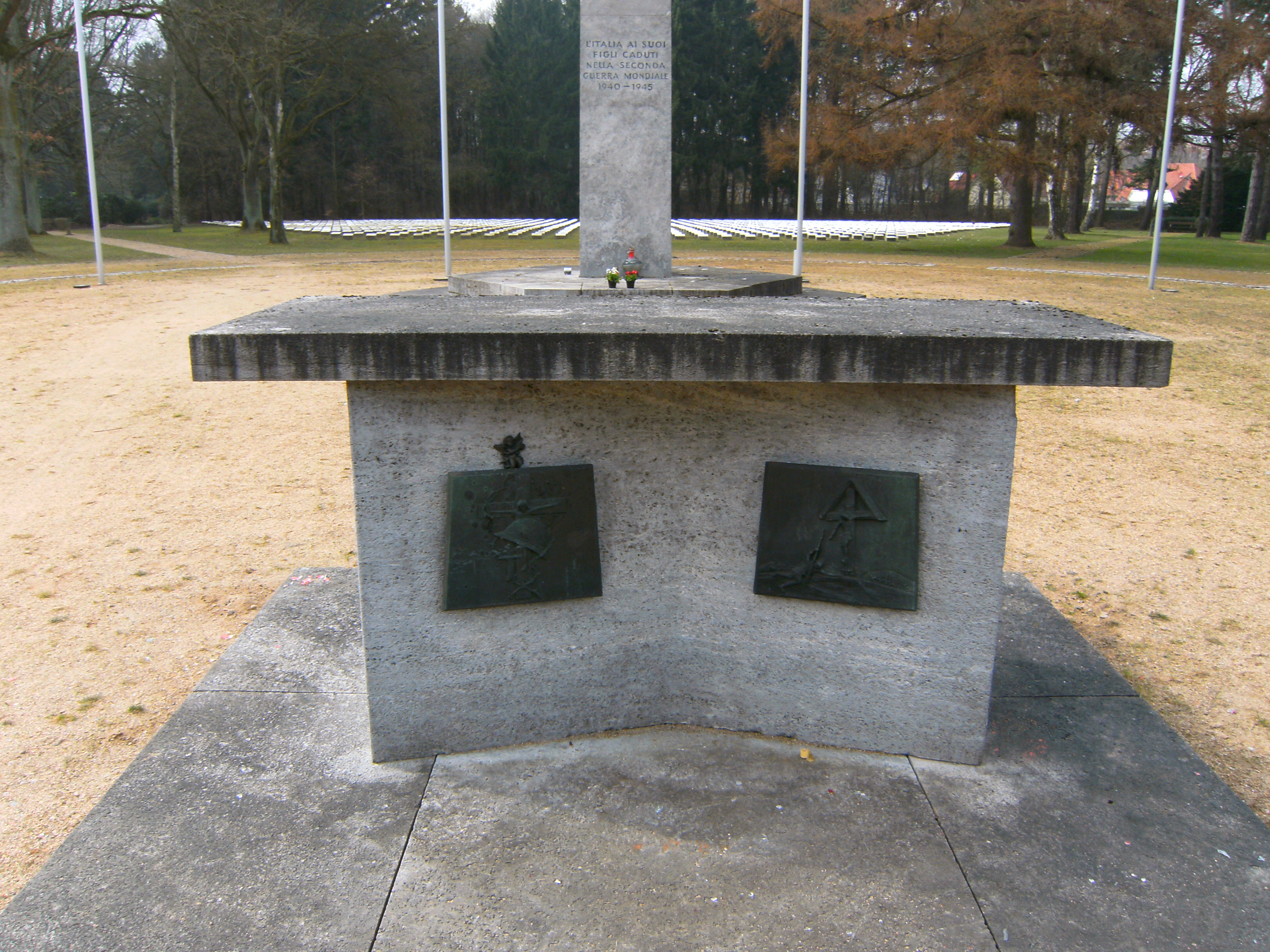 Altar and bronze decorations in front of the high cross in the Italian war graves cemetery Hamburg-Öjendorf.